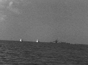 Two near misses off the bow of the U.S. Navy destroyer USS Corry (DD-463) from shore batteries near Utah Beach, Normandy (France), on 6 June 1944.